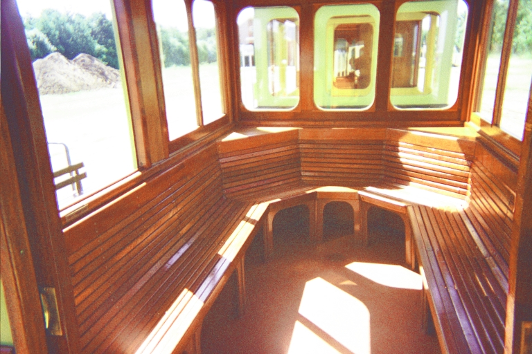 Seats inside the P45 are placed in a U to make room for wheelchairs.